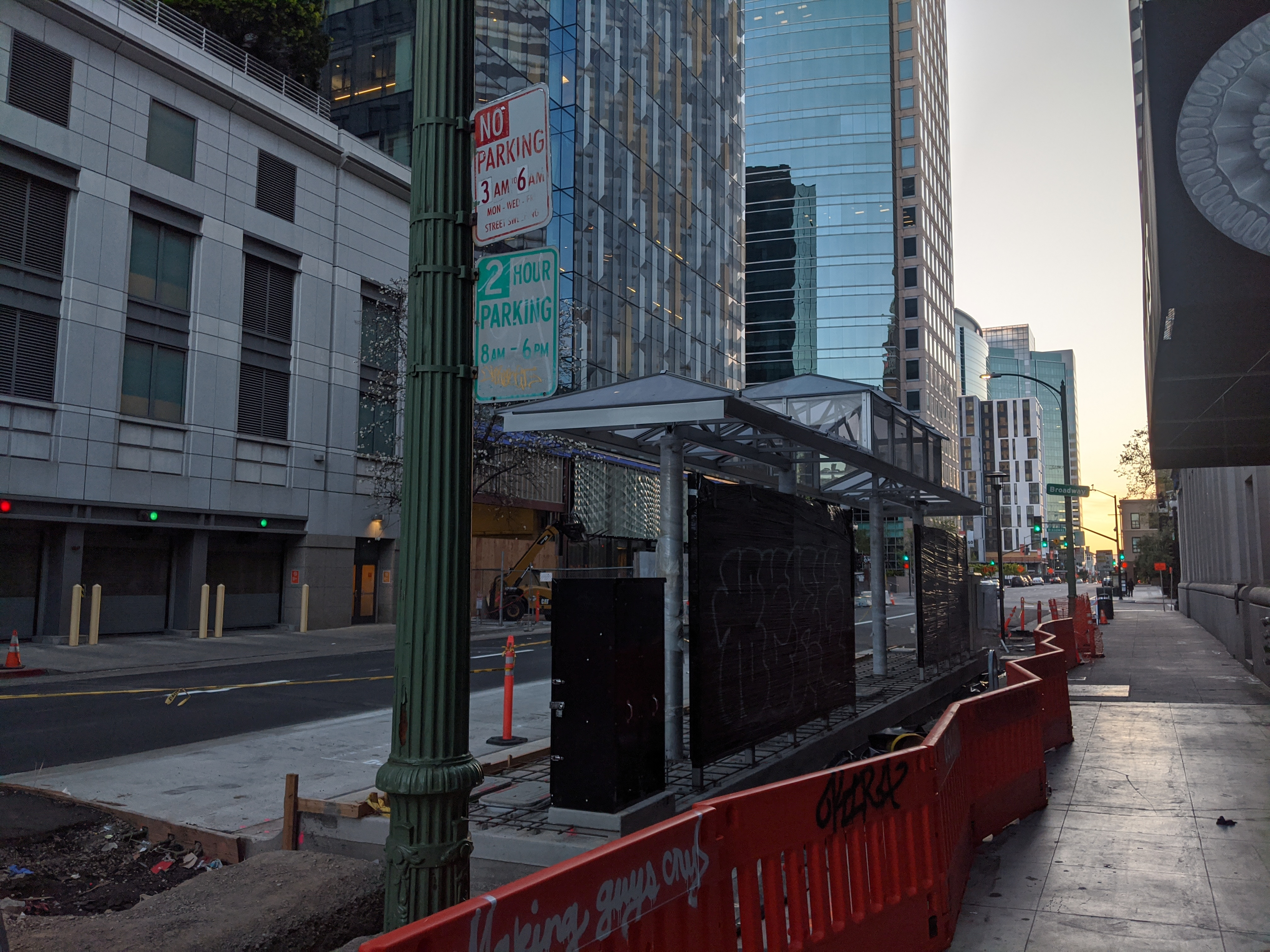 The westbound BRT stop on 12th Street at Broadway (City Center) under construction in April 2020